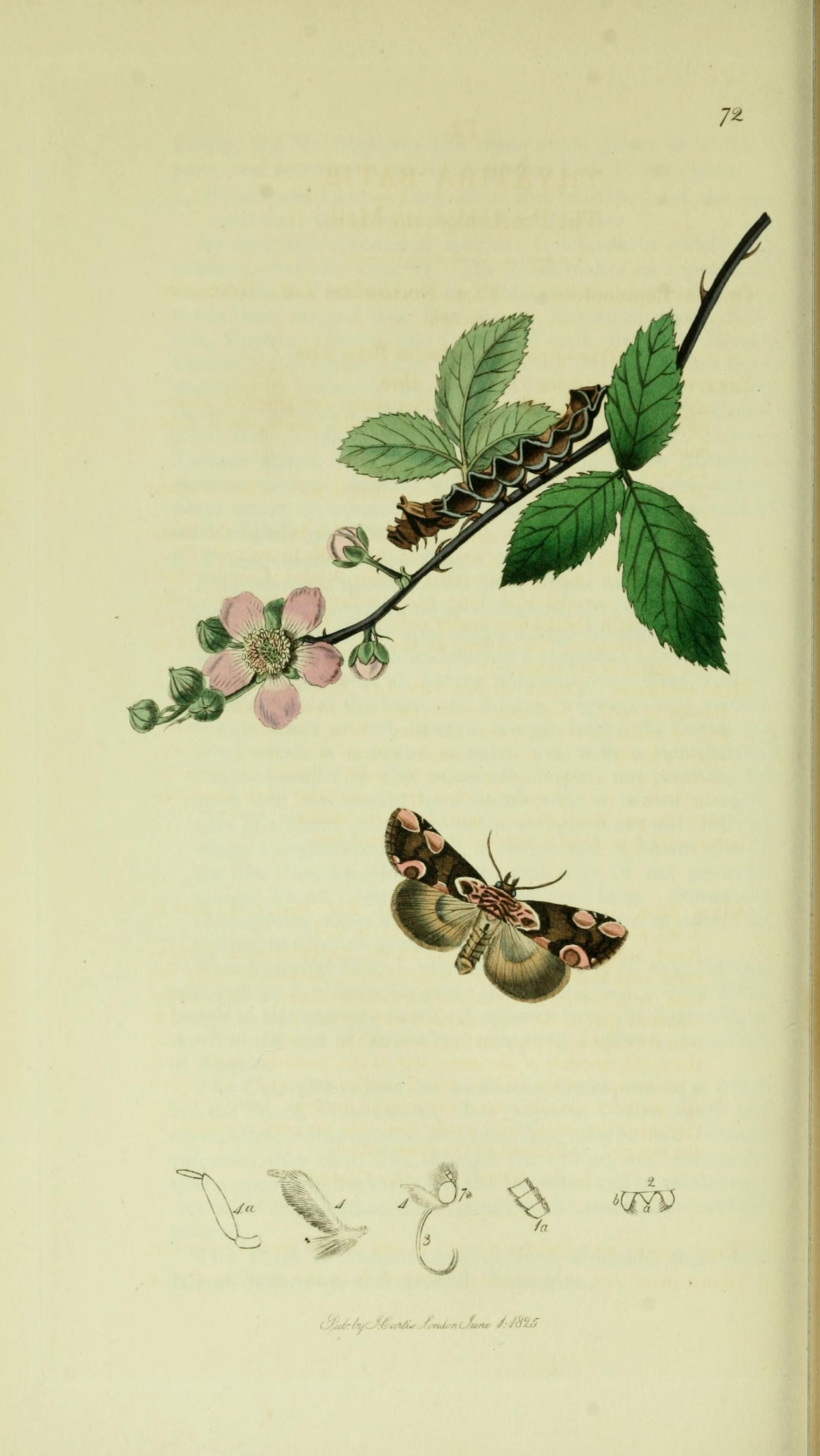 An illustration from British Entomology by John Curtis. Thyatira batis (Peach-blossom).